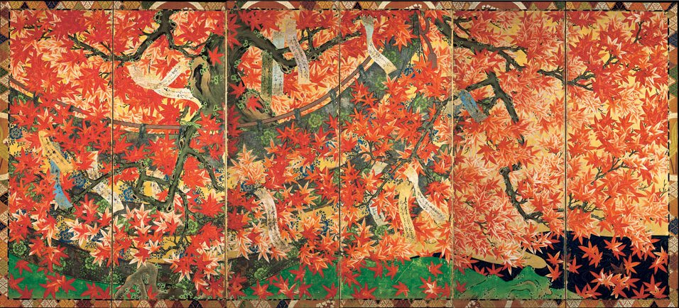 Flowering Cherry and Autumn Maple with Poem Slips, Japan, Edo period, second half of the 17th century. one of pair of six-panel folding screens; ink, color, gold, silver, and gold and silver leaf on paper, Private collection